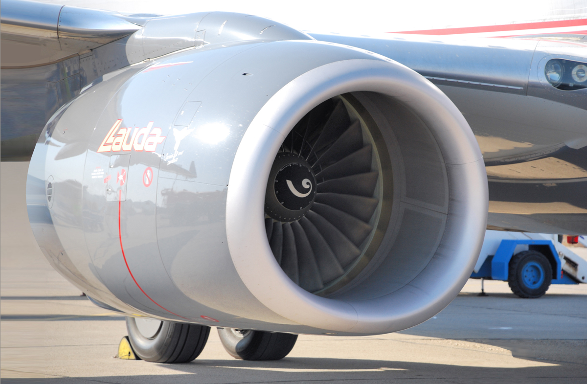 CFM International CFM56-7B engine of Lauda Air Boeing 737-800 OE-LNT